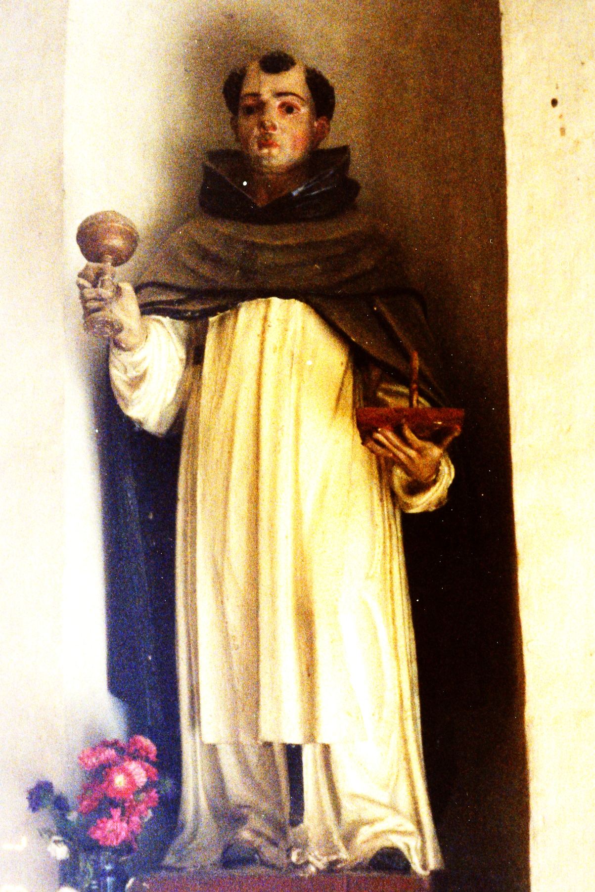 Dominican Saint, in the church of San Pablo Huitzo, Oaxaca, Mexico, in the narthex, to the right of the portal